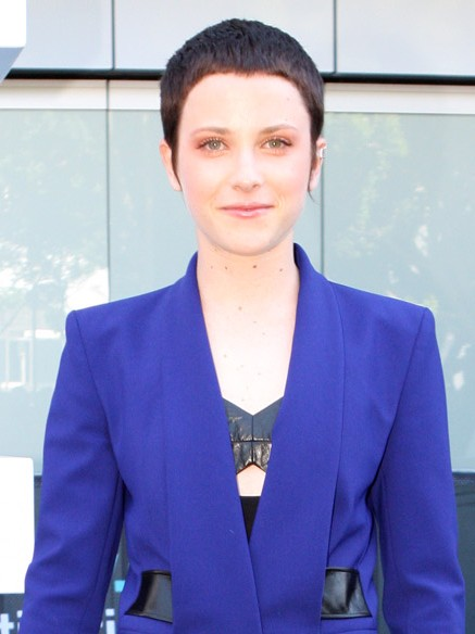 Aria Awards 2013 in Sydney Australia